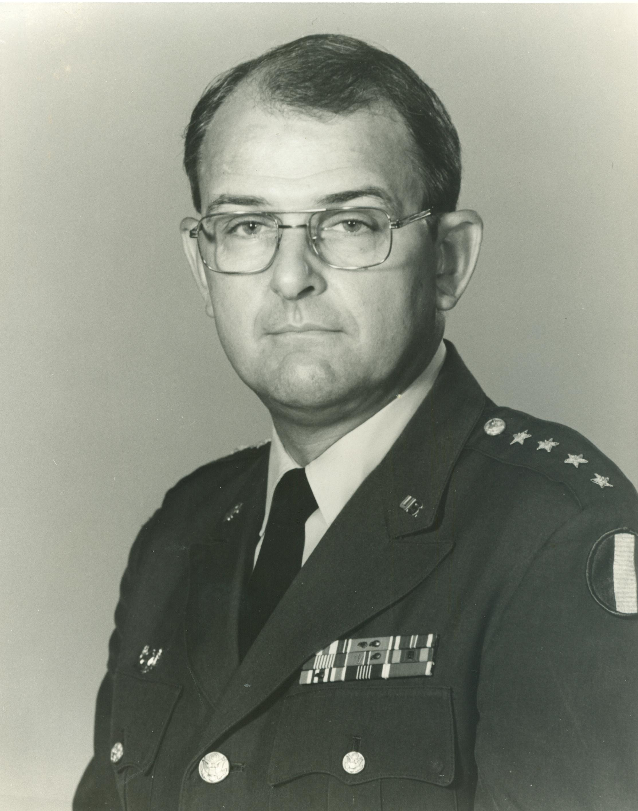 General Donn A Starry from [1]